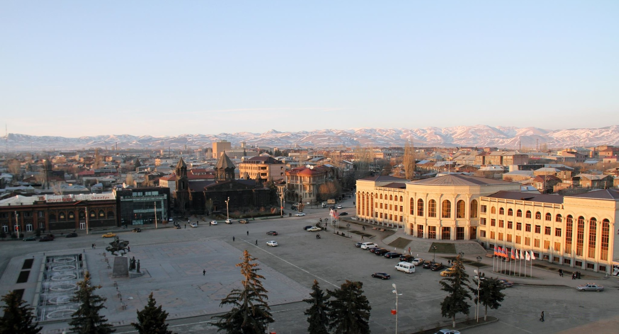 Gyumri general view from the central square.